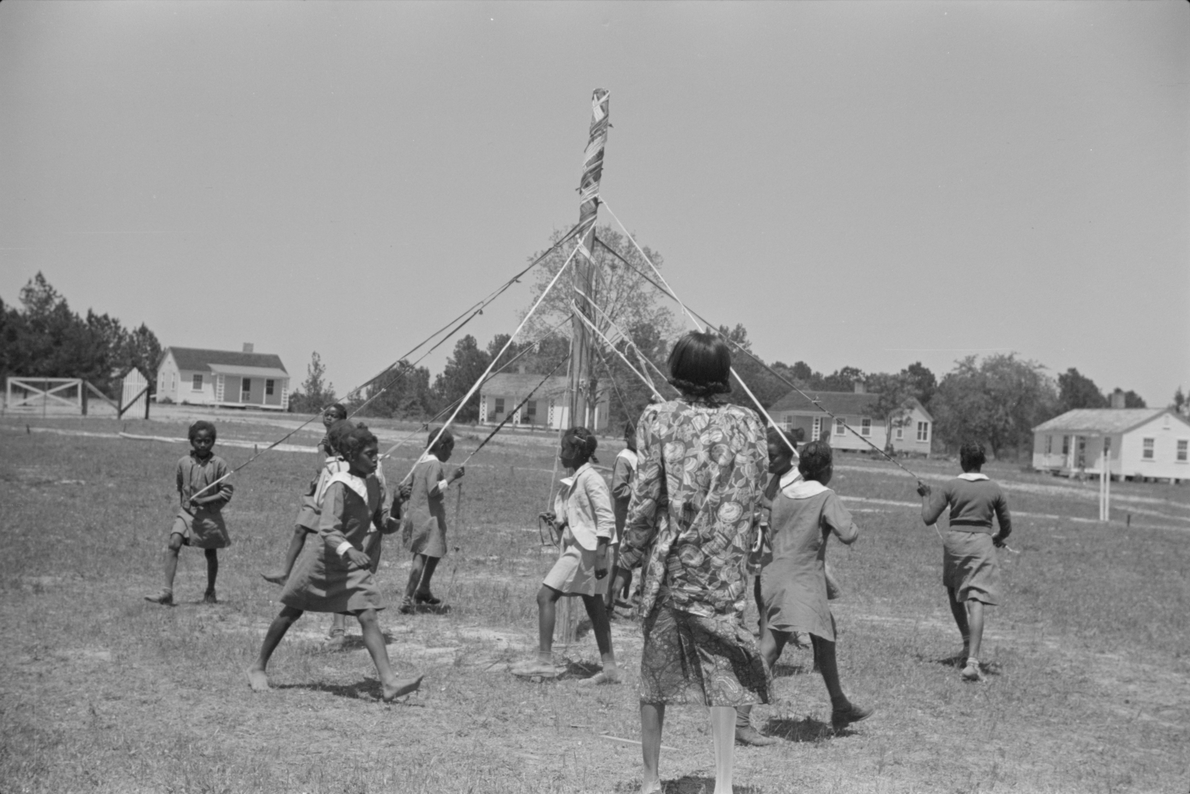 School children rehearsing Maypole festivity, in Gee's Bend, Alabama, 1939.